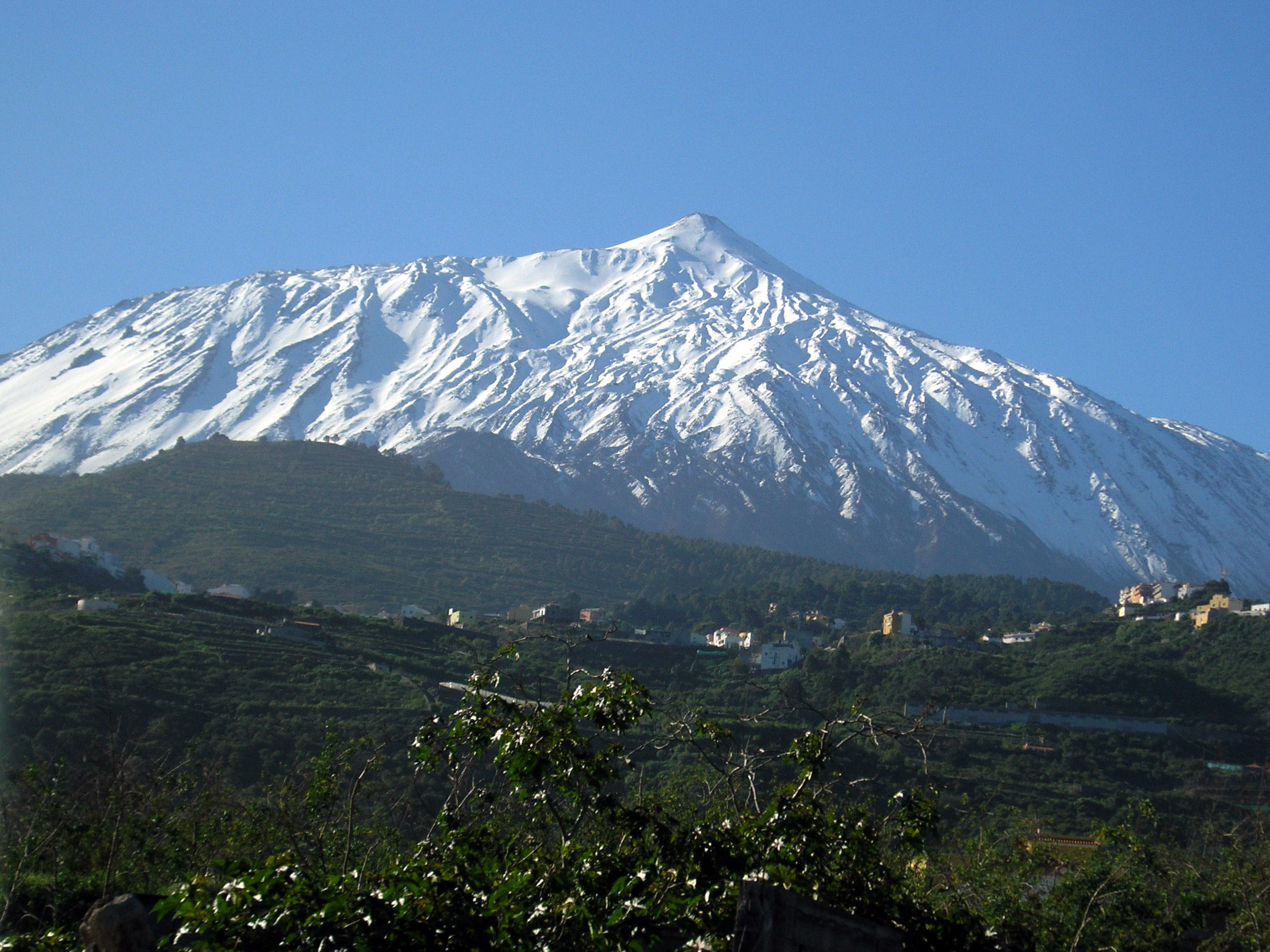 Teide on Tenerife, covered with snow. view from north